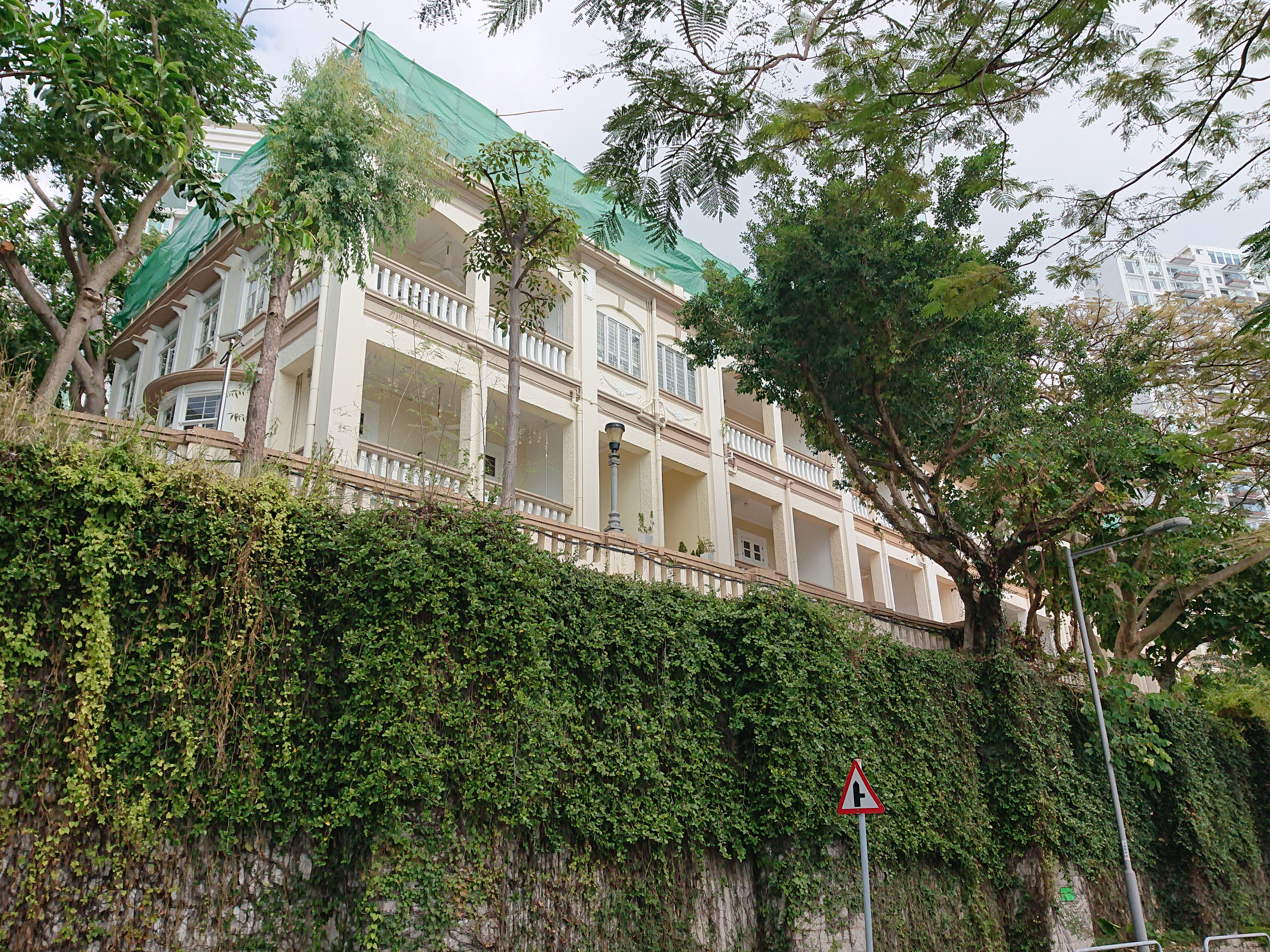 Felix Villas viewed from Victoria Road